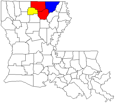 Map of Monroe-Ruston-Bastrop, LA Combined Statistical Area (CSA): Red: Monroe, LA MSA Yellow: Lincoln Parish, Louisiana (Ruston, LA µSA) Blue: Morehouse Parish, Louisiana (Bastrop, LA µSA)